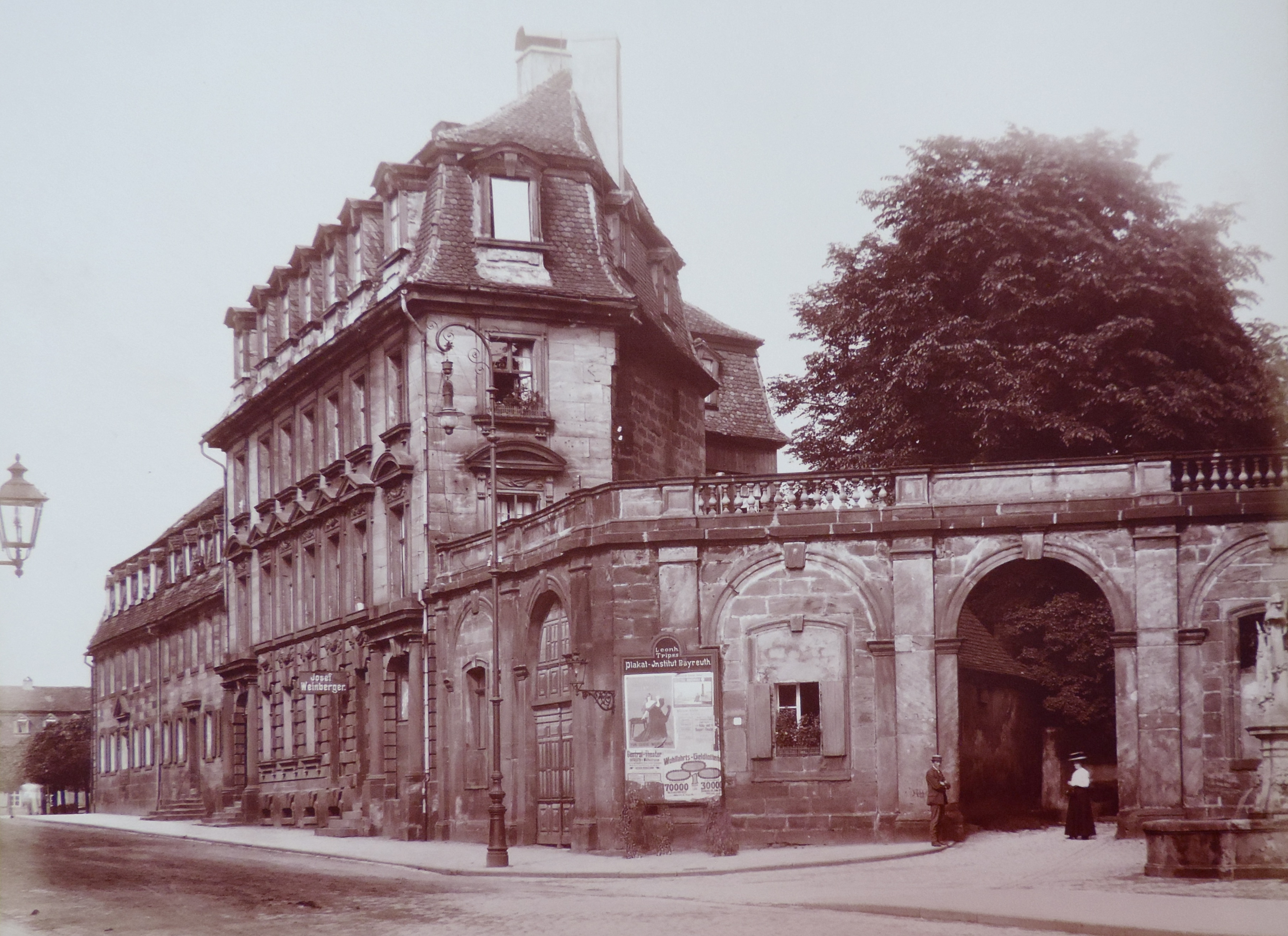 Views and photos of Bayreuth, Germany, gifted to Ferdinand I of Bulgaria to commemorate his 25-year rule. Entrance to the garden.